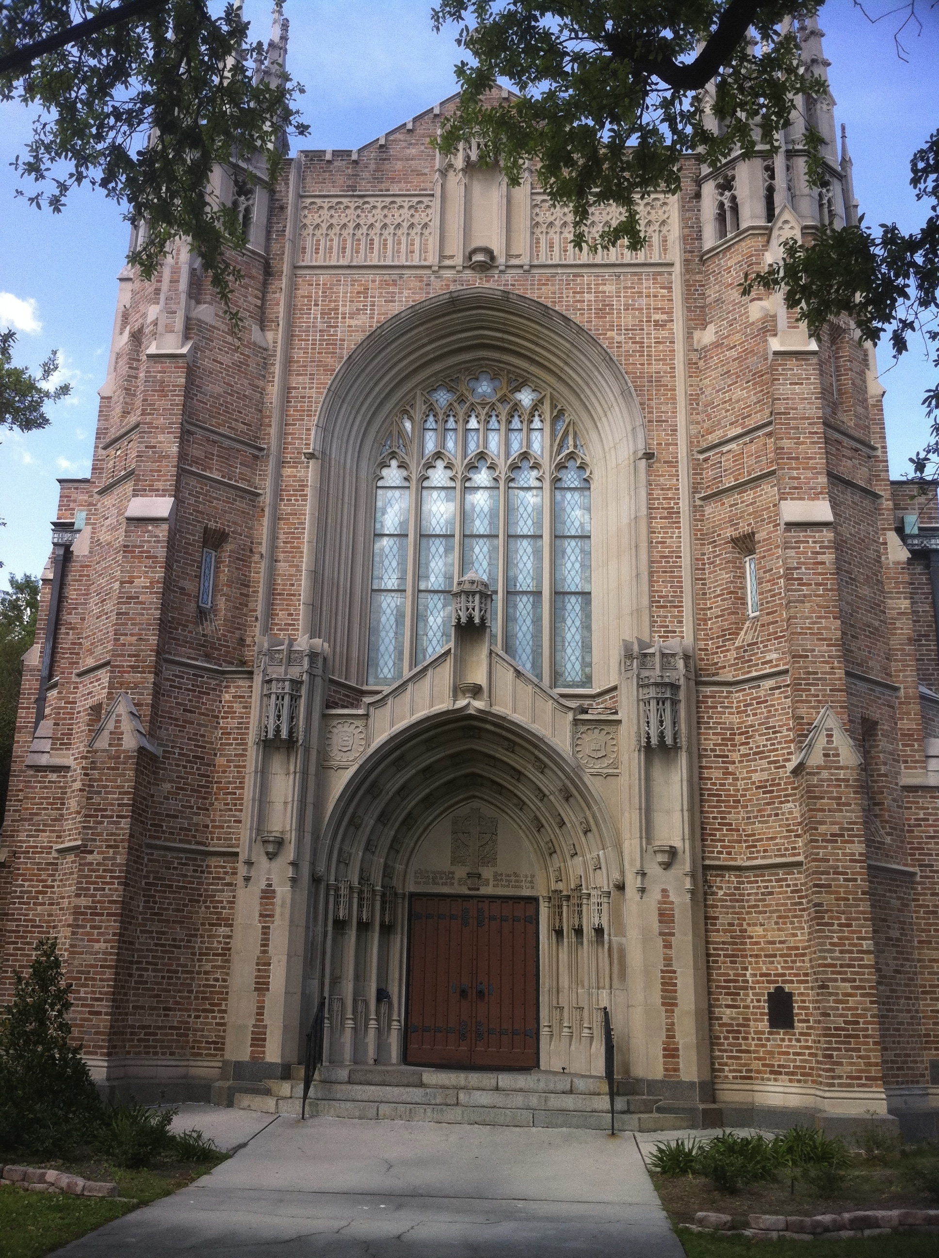 The exterior of 5401 S. Claiborne Ave, New Orleans, LA